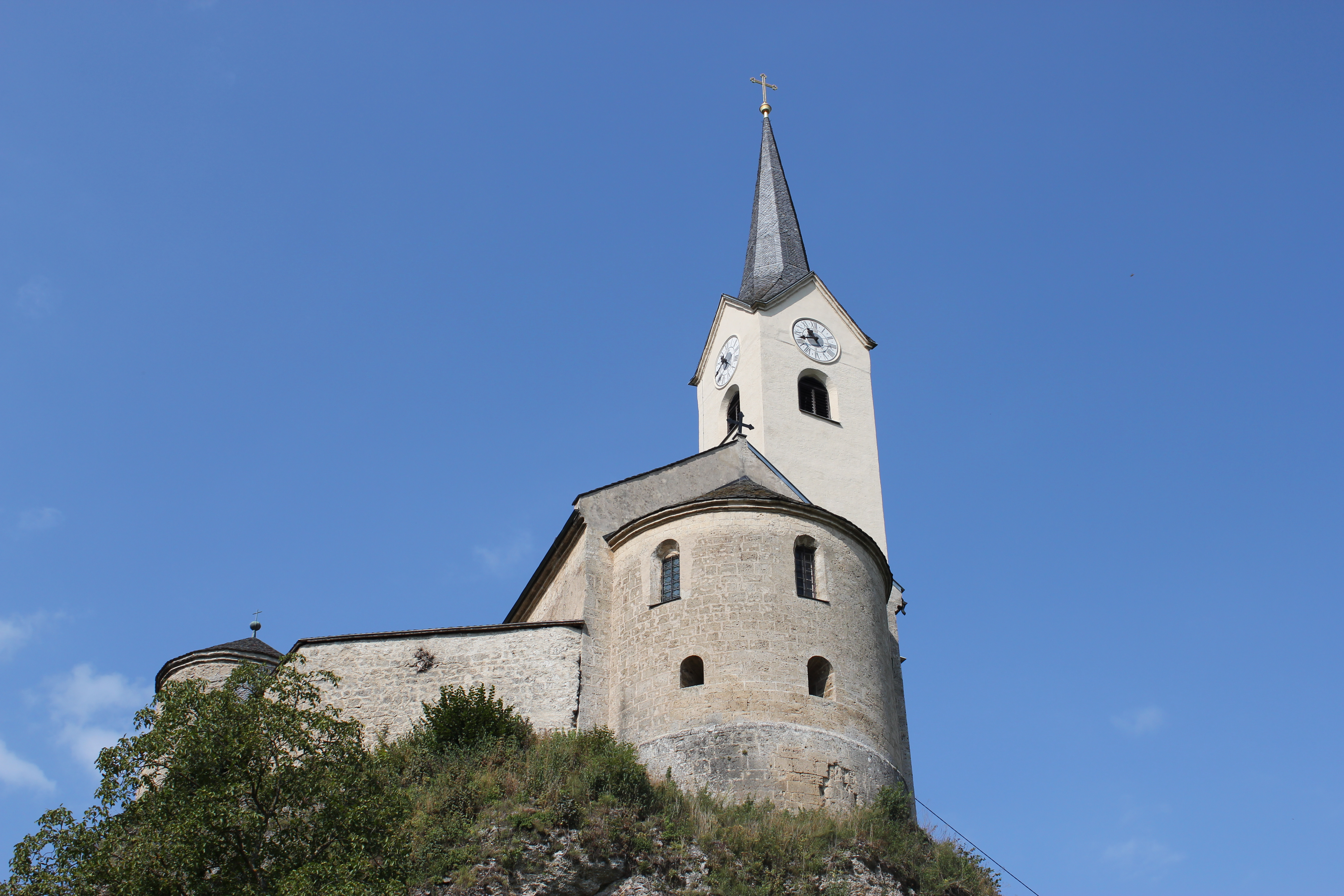 Church of Stein im Jauntal in the community of Sankt Kanzian am Klopeiner See